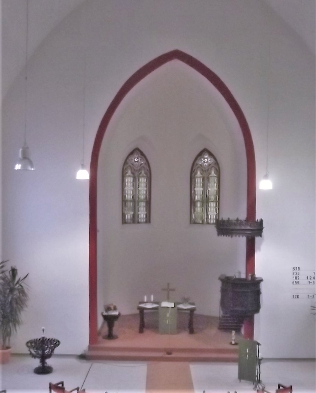 Interior of the protestant church in Landsweiler-Reden, Saarland